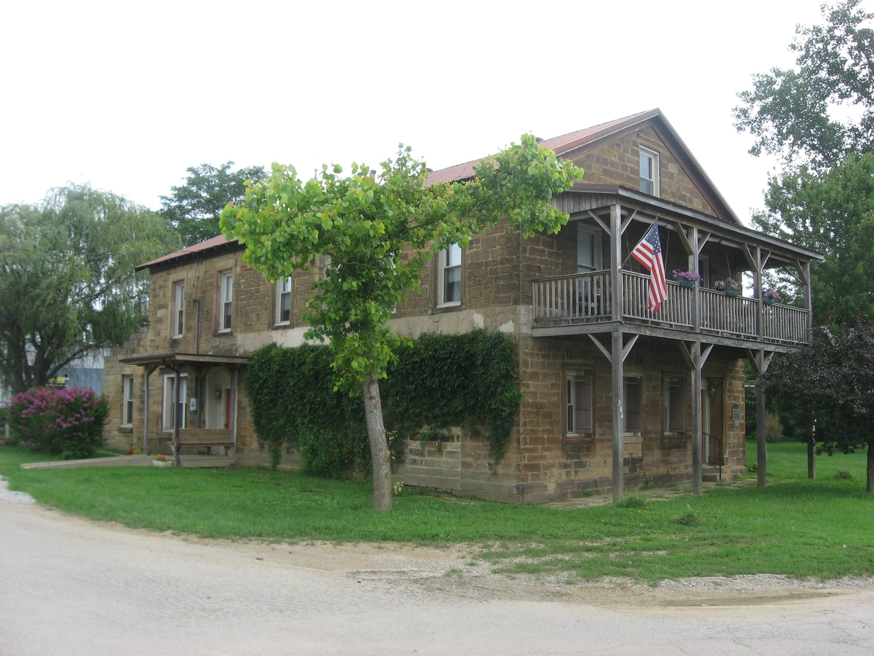 Front and western side of the Nester House, located at 300 Water Street in Troy, Indiana, United States. Built in 1863, it is listed on the National Register of Historic Places.